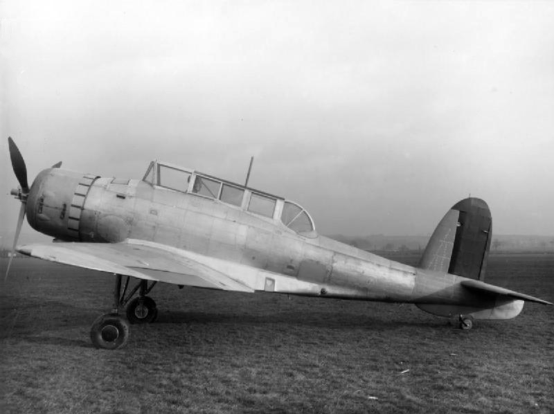 The first of two Royal Navy Blackburn Skua Mk.I prototypes (s/n K5178). Powered by the Bristol Mercury, it had distinctive fairings to the engine cowling over the tappet valves of the Mercury. The first prototype, K5178, had a much shorter nose while K5179, the second prototype, had a lengthened nose to improve longitudinal stability. K5178 made its first flight on 9 February 1937.